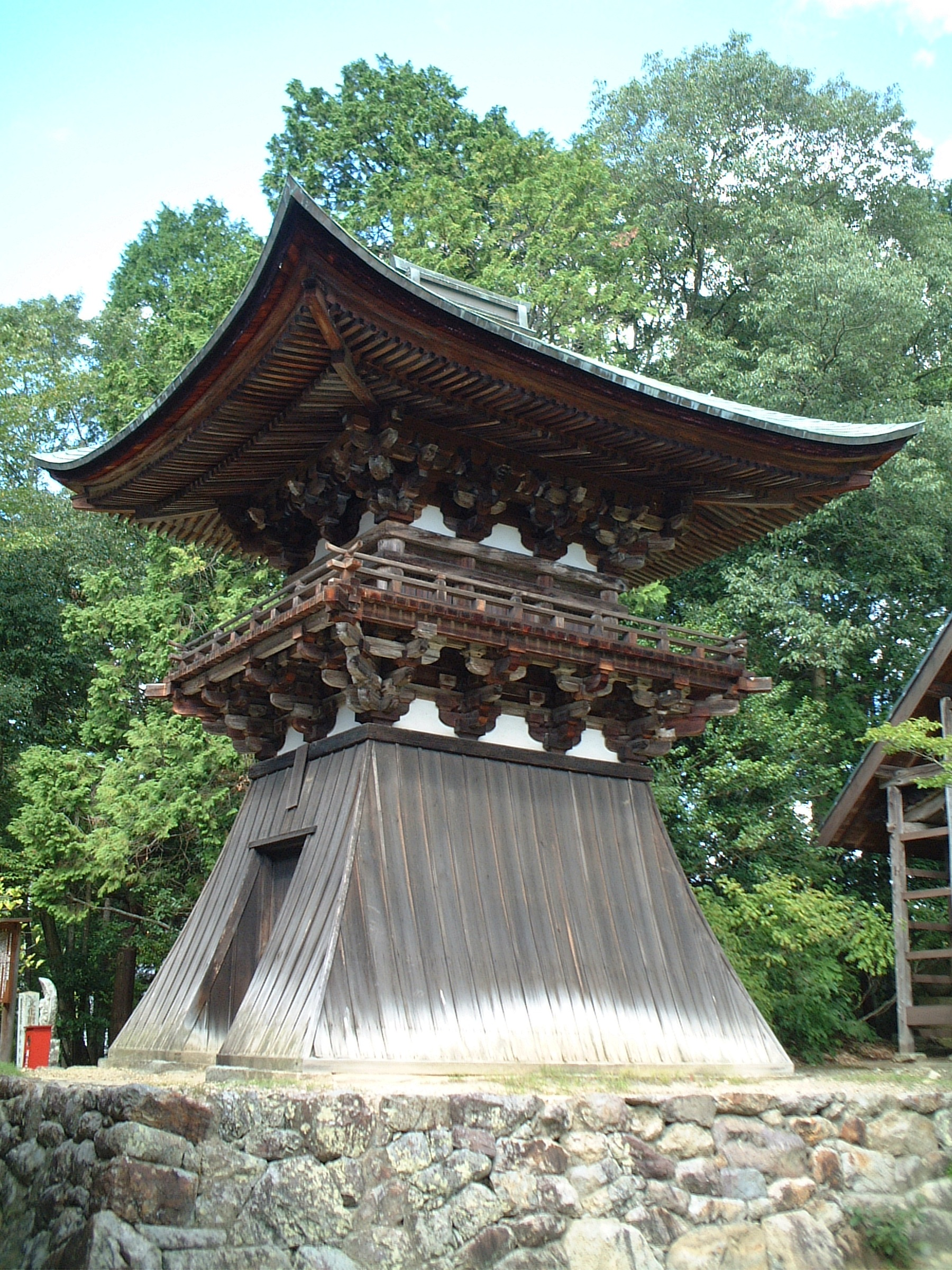 The Belfry of Chofuku-ji, Yashiro, Hyogo, Japan Summary The Belfry of Chofuku-ji, Yashiro, Hyogo, Japan